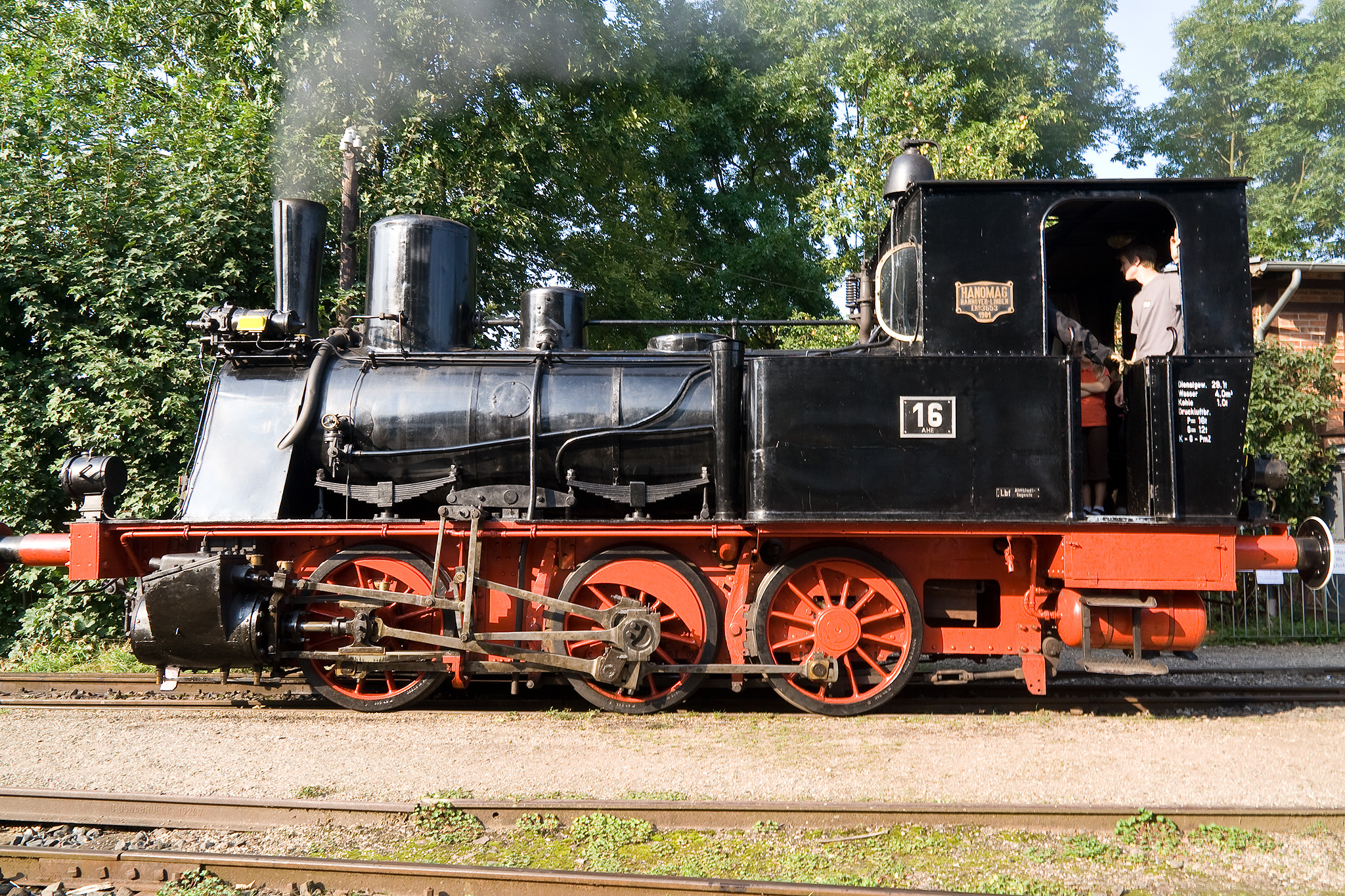 Tank locomotive Prussian T3 „Schunter“ of the Arbeitsgemeinschaft historische Eisenbahn e.V. (AHE) Almstedt-Segeste, Lower Saxony, Germany.